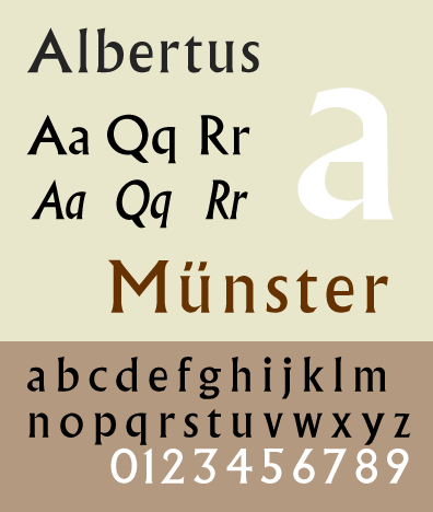 Specimen of the typeface Albertus. Jim Hood